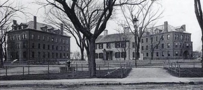 Kindergarten_for_the_Blind,_Hyde Square_Jamaica Plain_Boston